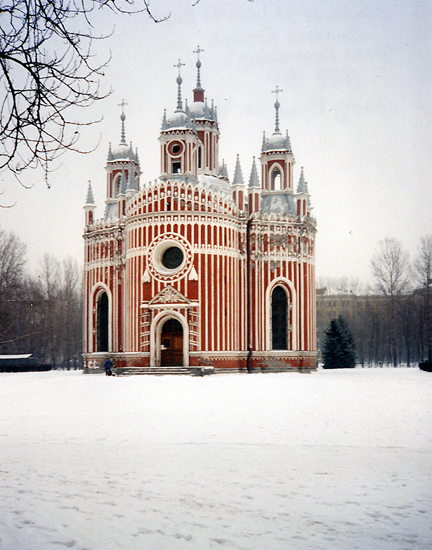 The Church of Saint John the Baptist at Chesme Palace in Russia, photographed January 1994 using an Olympus XA camera with Fujicolor ASA 400 film.